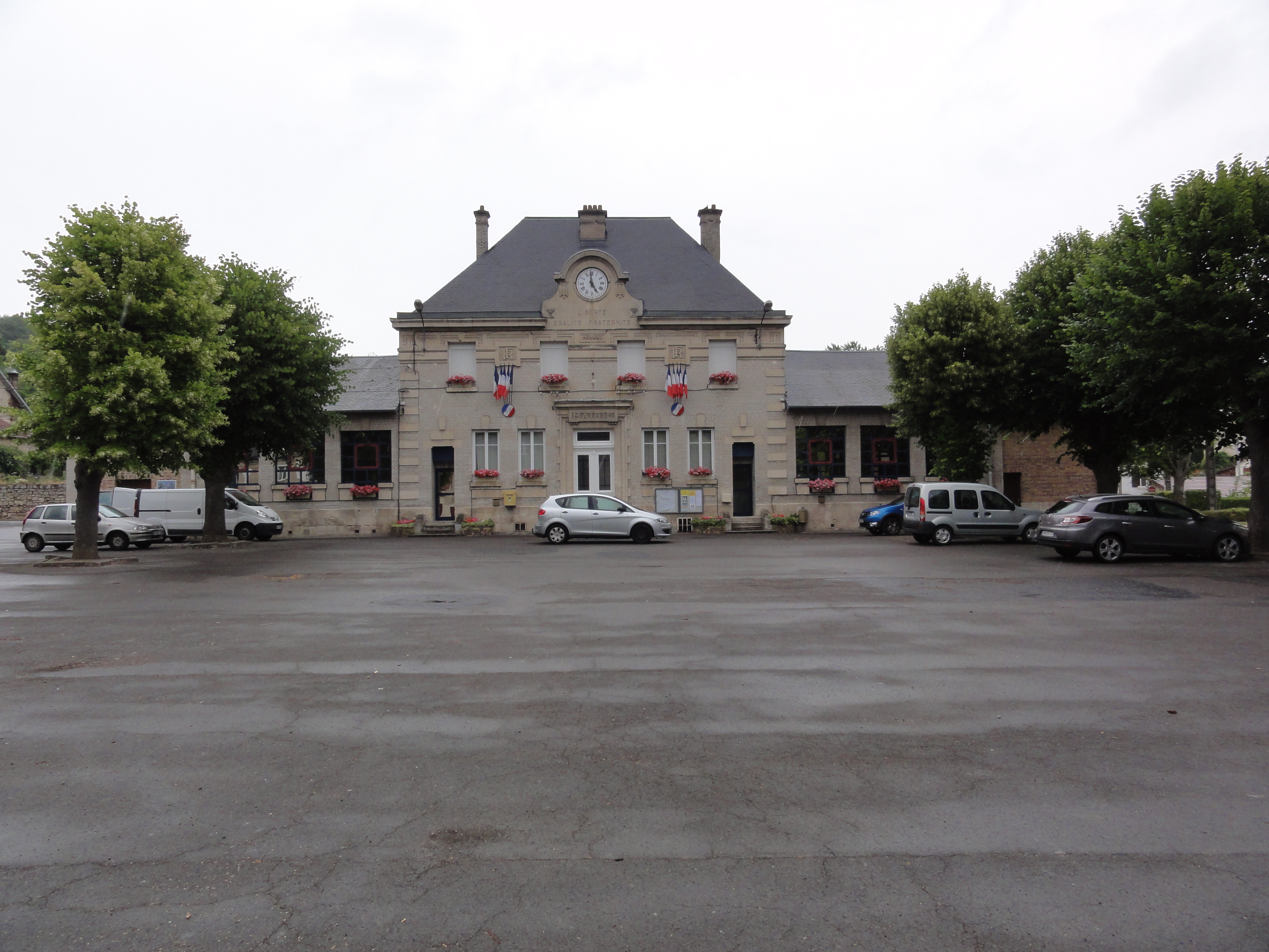 Cuffies (Aisne) mairie